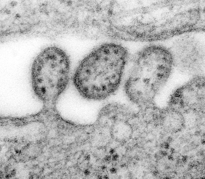 ID#: 8699 Description: This highly magnified transmission electron micrograph (TEM) depicted some of the ultrastructural details of a number of Lassa virus virions adjacent to some cell debris. The virus, a member of the virus family Arenaviridae, is a single-stranded RNA virus, and is zoonotic, or animal-borne that can be transmitted to humans. The illness, which occurs in West Africa, was discovered in 1969 when two missionary nurses died in Nigeria, West Africa. In areas of Africa where the disease is endemic (that is, constantly present), Lassa fever is a significant cause of morbidity and mortality. While Lassa fever is mild or has no observable symptoms in about 80% of people infected with the virus, the remaining 20% have a severe multisystem disease. Lassa fever is also associated with occasional epidemics, during which the case-fatality rate can reach 50%. Signs and symptoms of Lassa fever typically occur 1-3 weeks after the patient comes into contact with the virus. These include fever, retrosternal pain (pain behind the chest wall), sore throat, back pain, cough, abdominal pain, vomiting, diarrhea, conjunctivitis, facial swelling, proteinuria (protein in the urine), and mucosal bleeding. Neurological problems have also been described, including hearing loss, tremors, and encephalitis. Because the symptoms of Lassa fever are so varied and nonspecific, clinical diagnosis is often difficult. Approximately 15%-20% of patients hospitalized for Lassa fever die from the illness. However, overall only about 1% of infections with Lassa virus result in death. The death rates are particularly high for women in the third trimester of pregnancy, and for fetuses, about 95% of which die in the uterus of infected pregnant mothers.